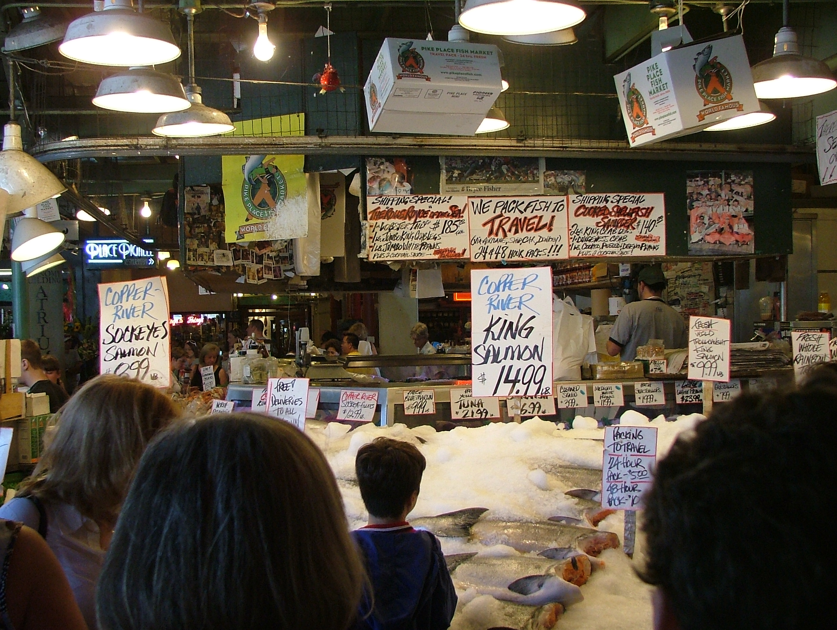 Pike Place Fish